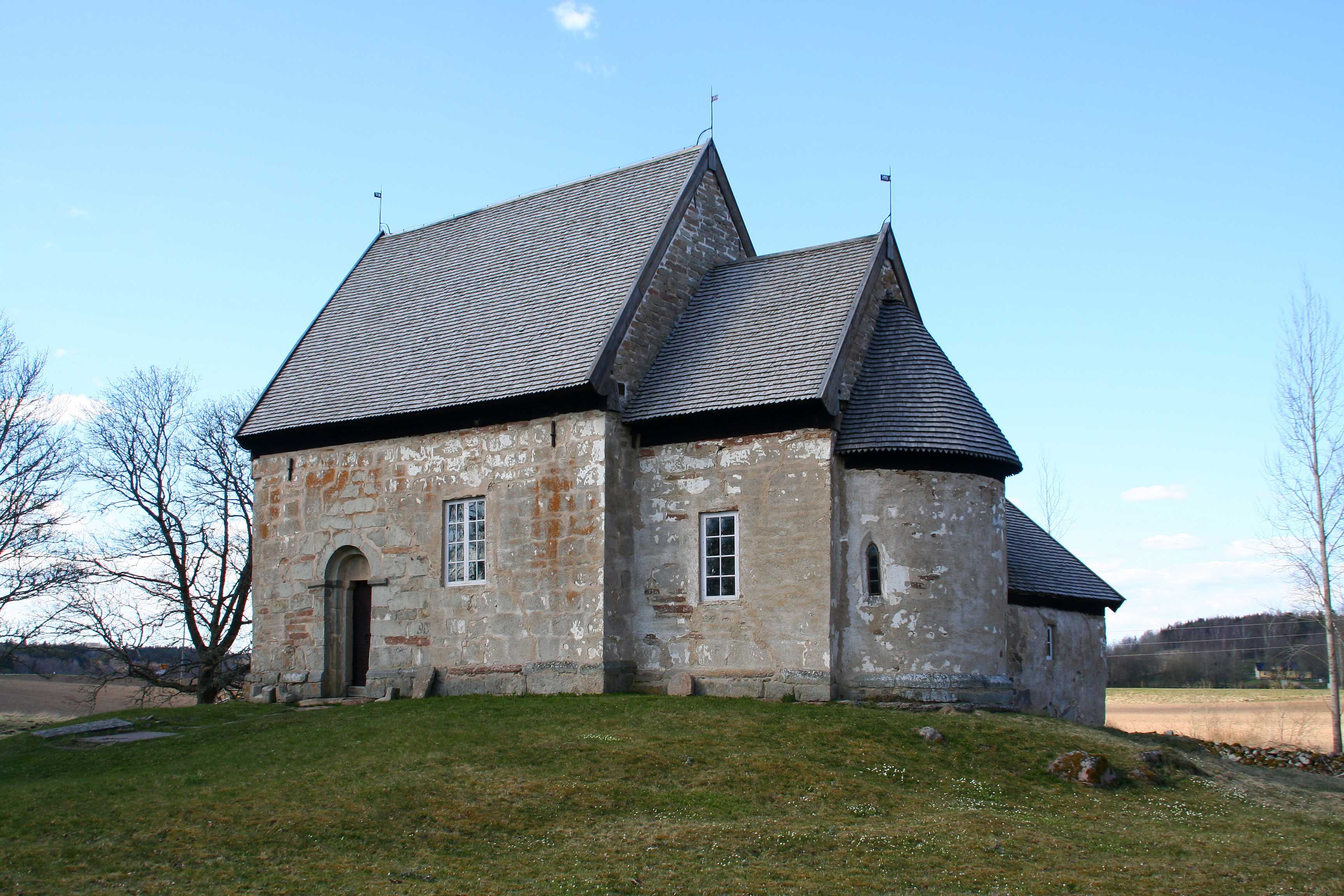 Suntak Old Church